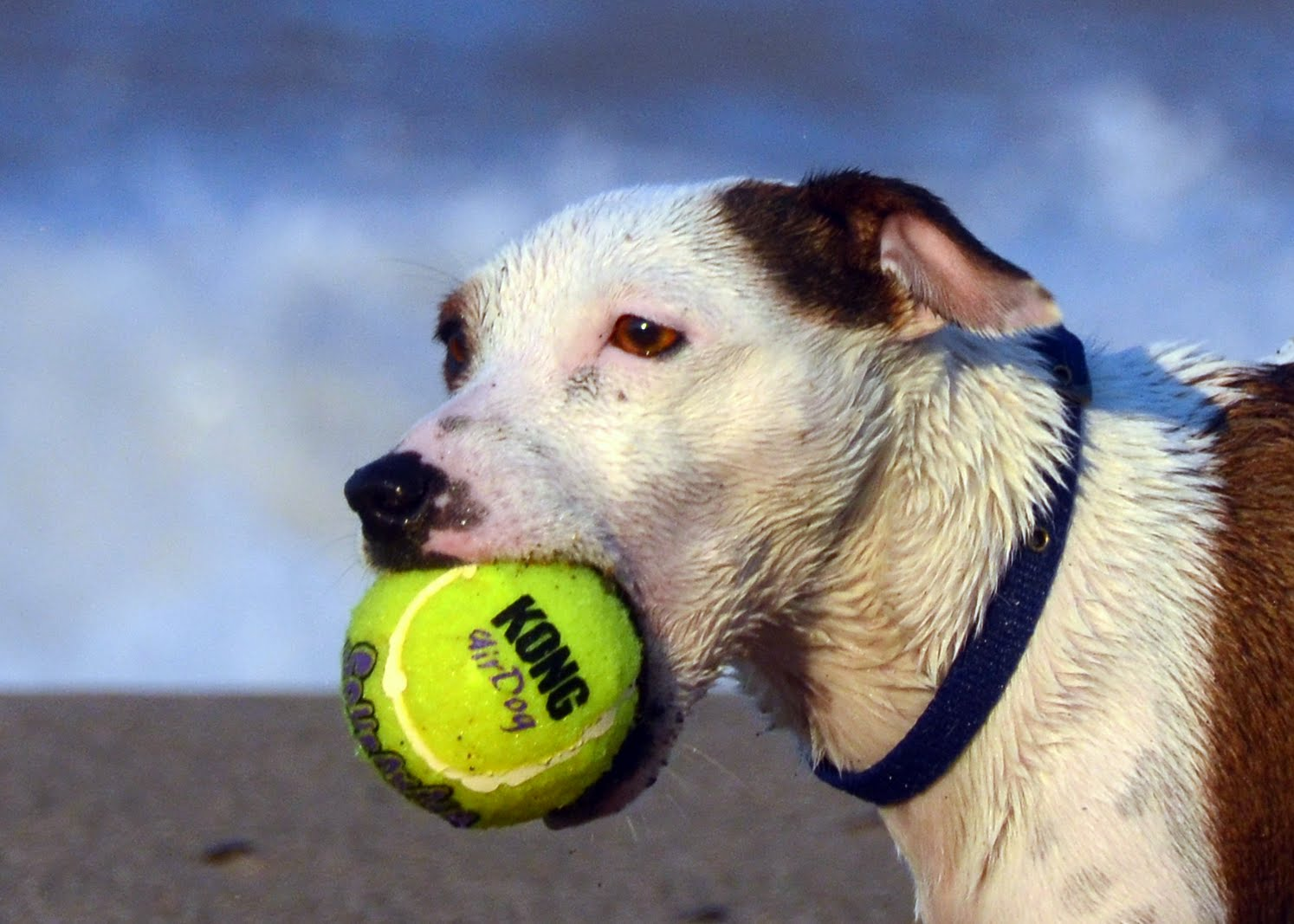 Eddi at the beach